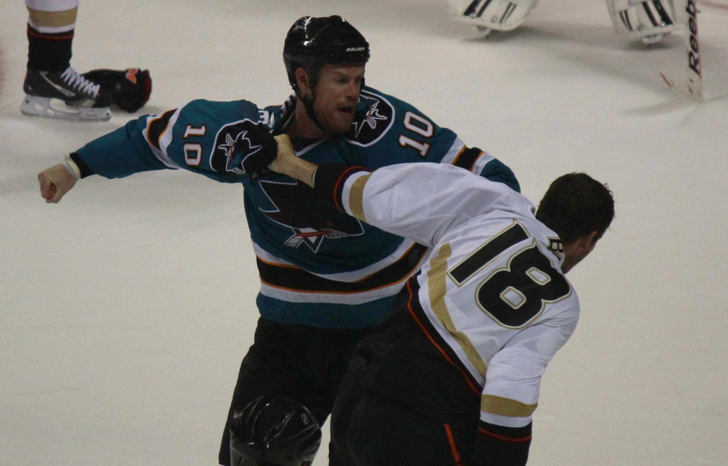 Phot of Brad Winchester